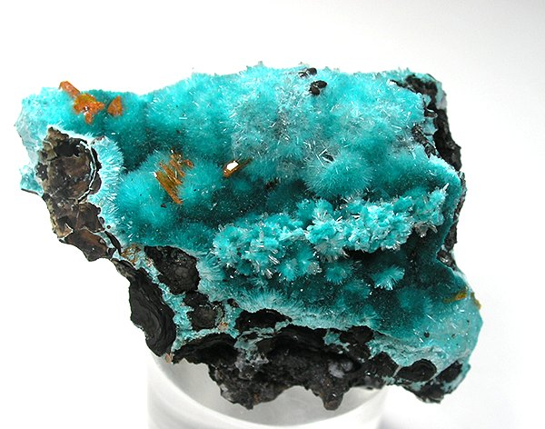 Wulfenite, Aurichalcite Locality: 79 Mine (79th Mine; Seventy-Nine Mine; Seventy-Nine property; McHur prospect), Chilito, Hayden area, Banner District, Dripping Spring Mts, Gila County, Arizona, USA (Locality at ) WOW! Who would have thought I'd find this baby in Europe? But, there it was ! It is, to my own experience, a unique association and what a beautiful one, too! The windowpane wulfenite is small but perfect, and sharply contrasts with the rich blue aurichalcite. 5.7 x 4.3 x 2.3 cm